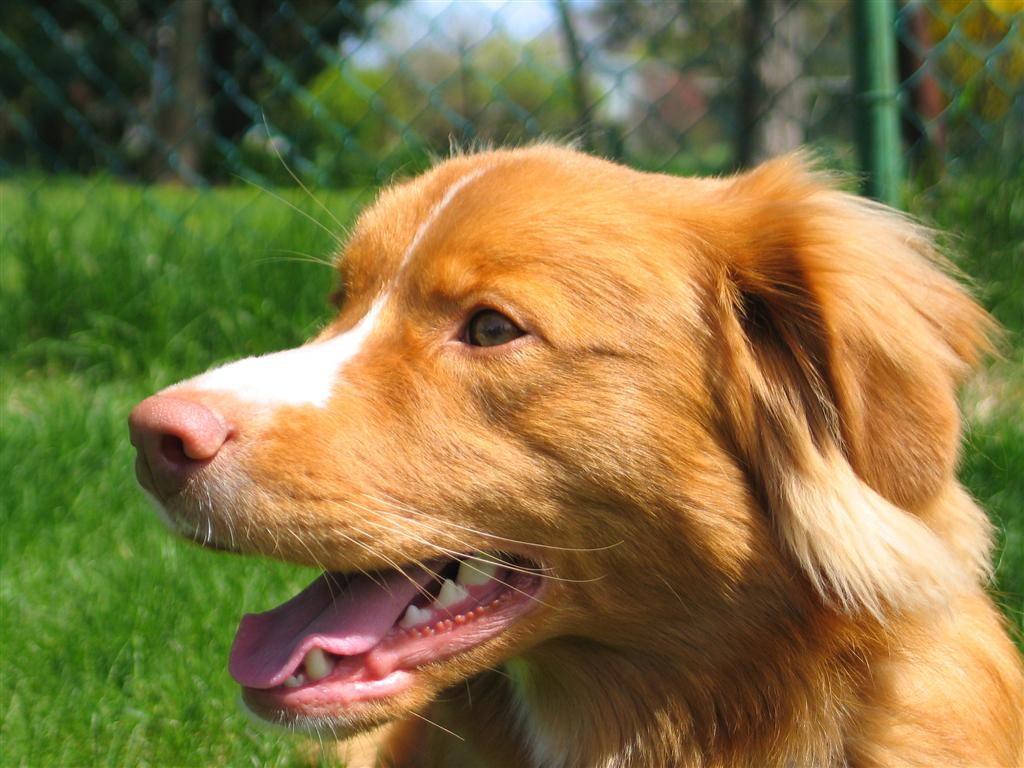 A young Nova Scotia Duck Tolling Retriever.